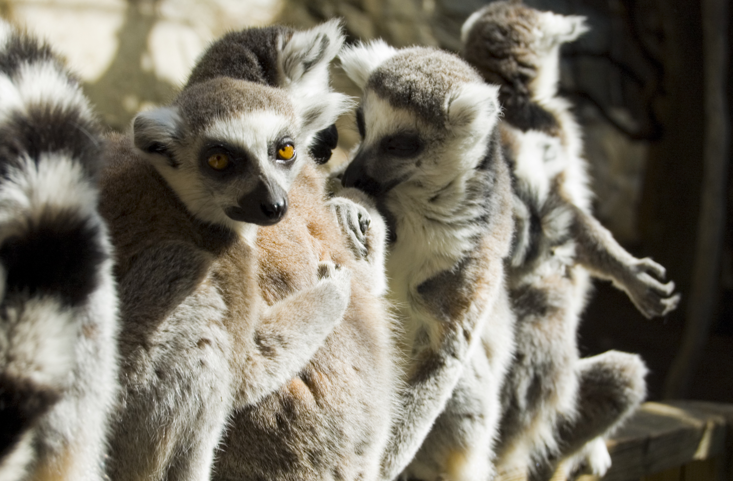 Group of Lemur catta (Ring-tailed lemurs)